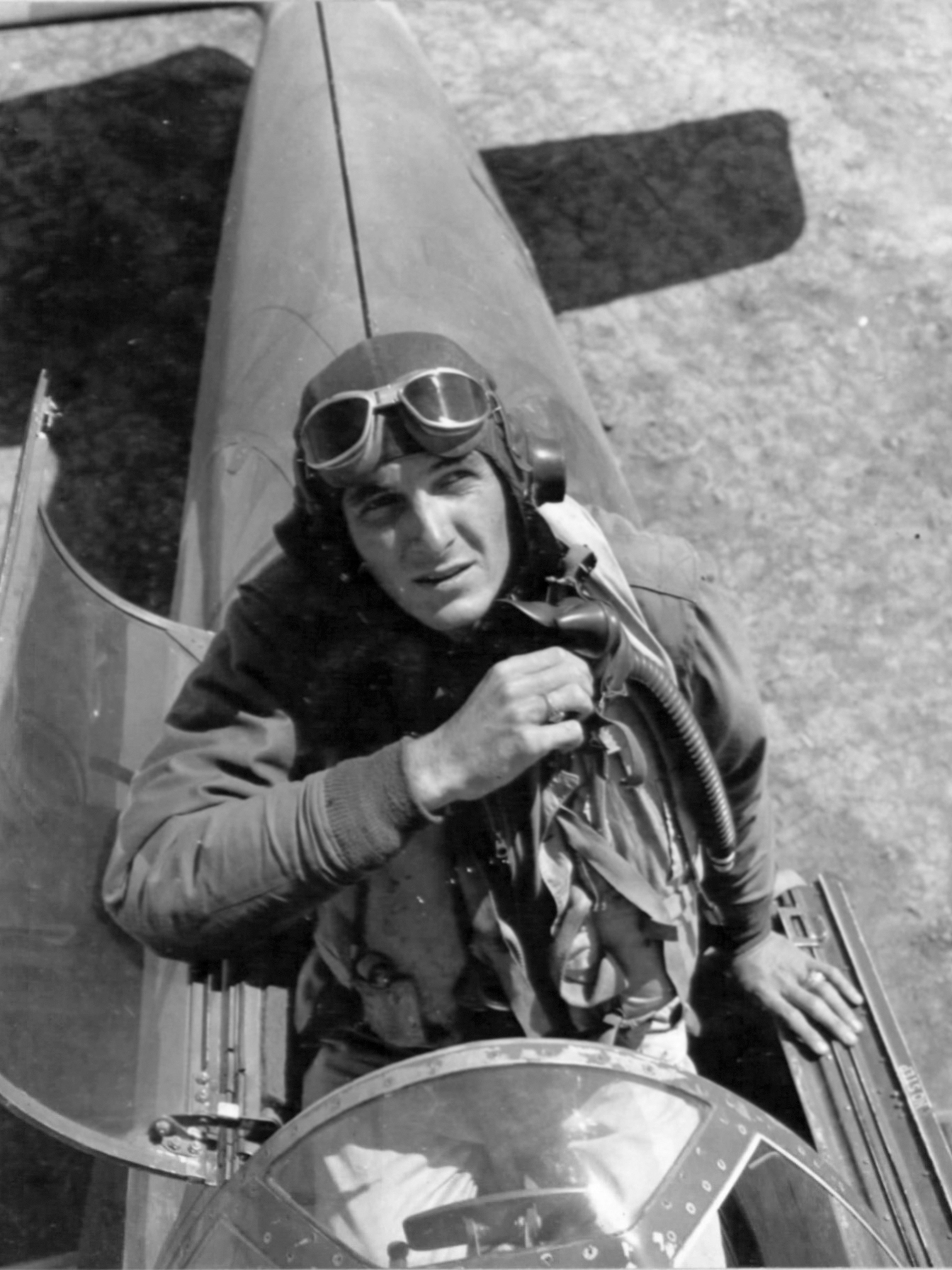 Lt. James S. Varnell of the 2nd Fighter squadron/52nd Fighter Group climbs from his North American P-51 Mustang "Little Eva" (44-13431)